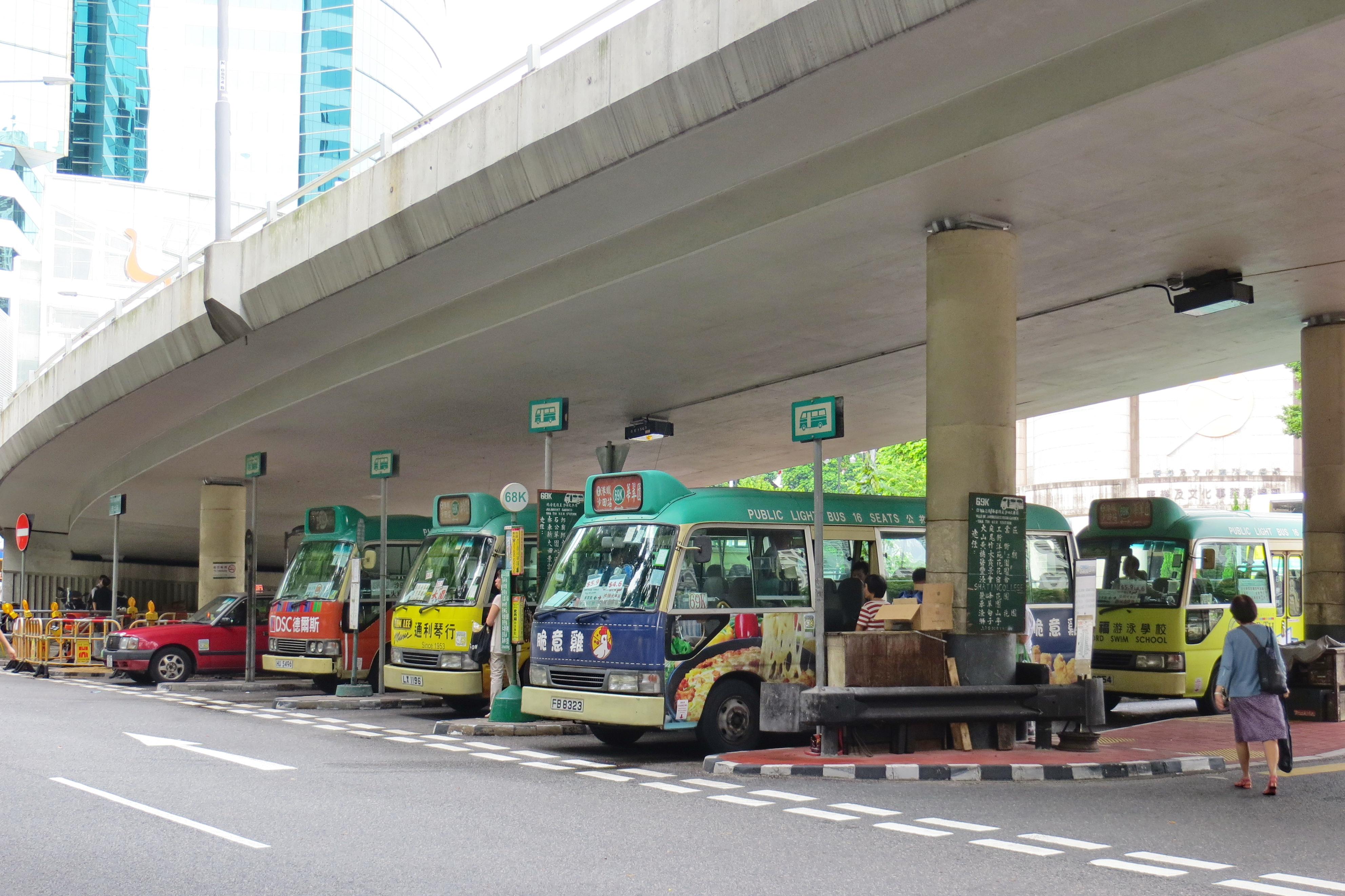 Sha Tin Station (Pai Tau Street) Terminus, New Territories, Hong Kong.